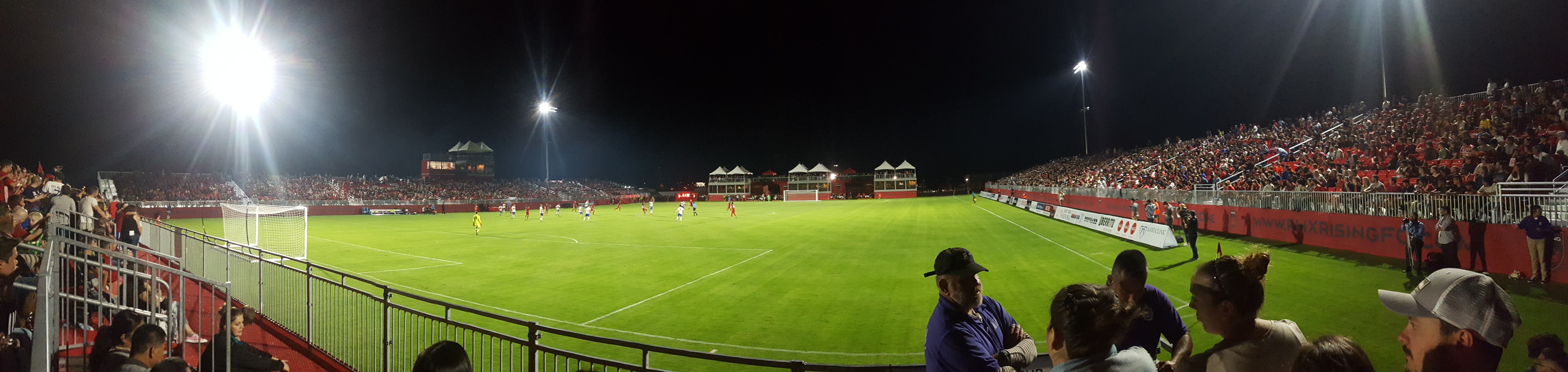 A panoramic photograph of the Phoenix Rising Sports Complex on March 25, 2017 during its inaugural match, Toronto FC II vs. Phoenix Rising FC.